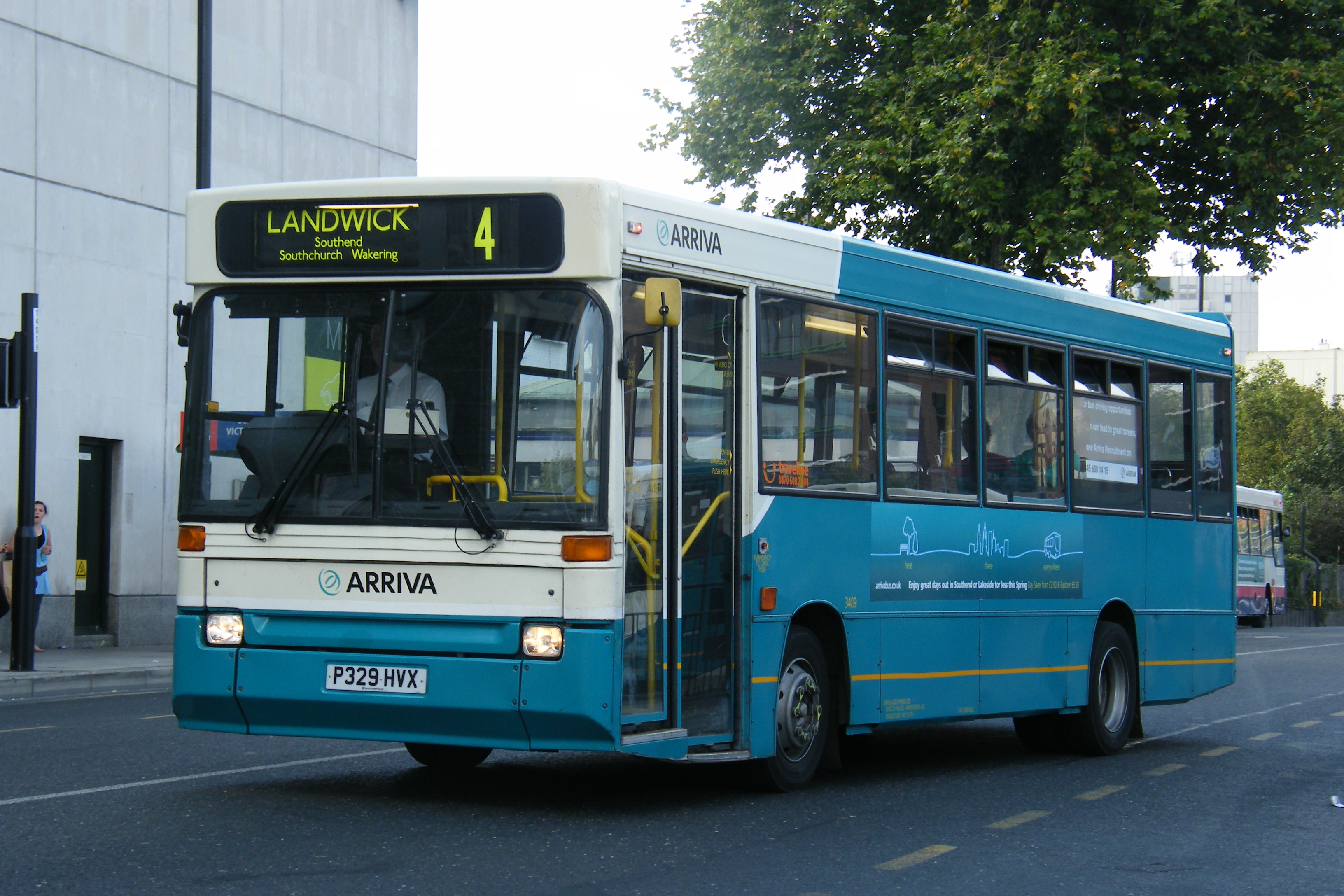 Arriva Southend Plaxton Pointer bodied Dennis Dart (P329 HVX) in August 2009